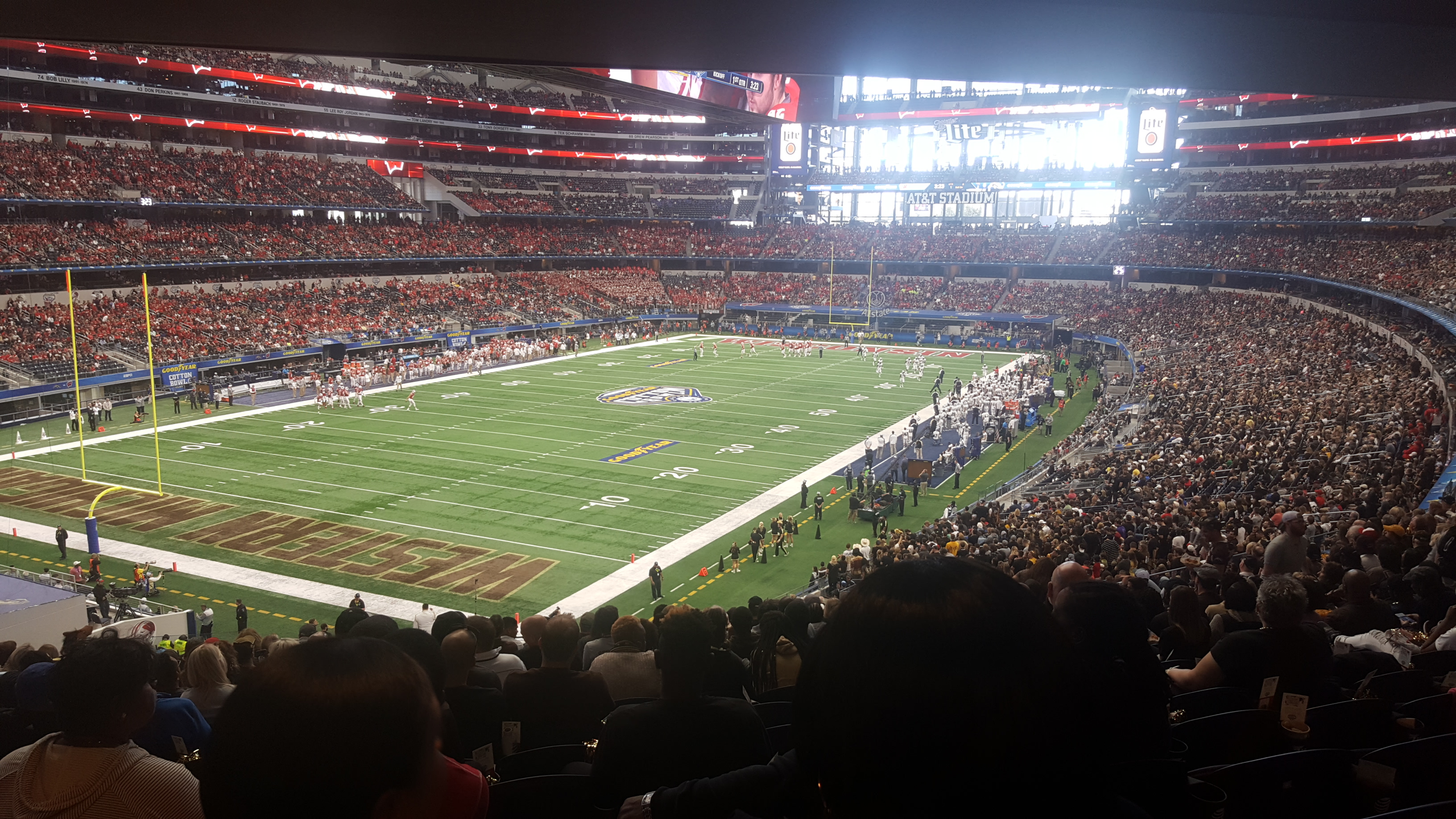 Near the end of the first quarter, the Wisconsin Badgers prepare to kickoff the football to the Western Michigan University Broncos. This game was played at AT&T Stadium in Arlington, Texas.